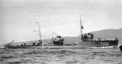 The Soviet project 53U base minesweeper T-206 Berp.